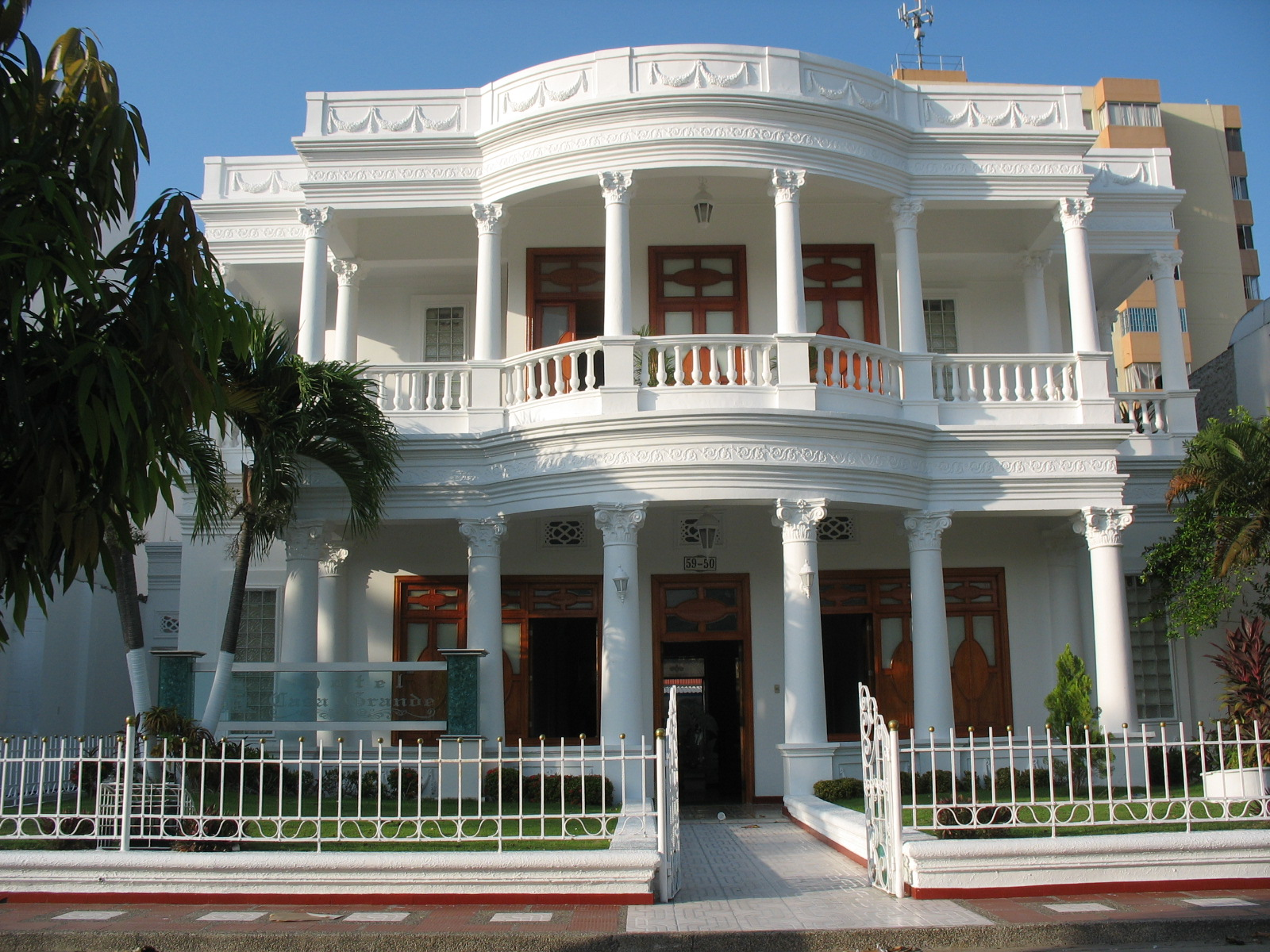 Barranquilla Neoclassic style